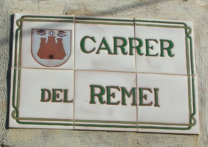 Ulldecona streetboard. Les Ventalles